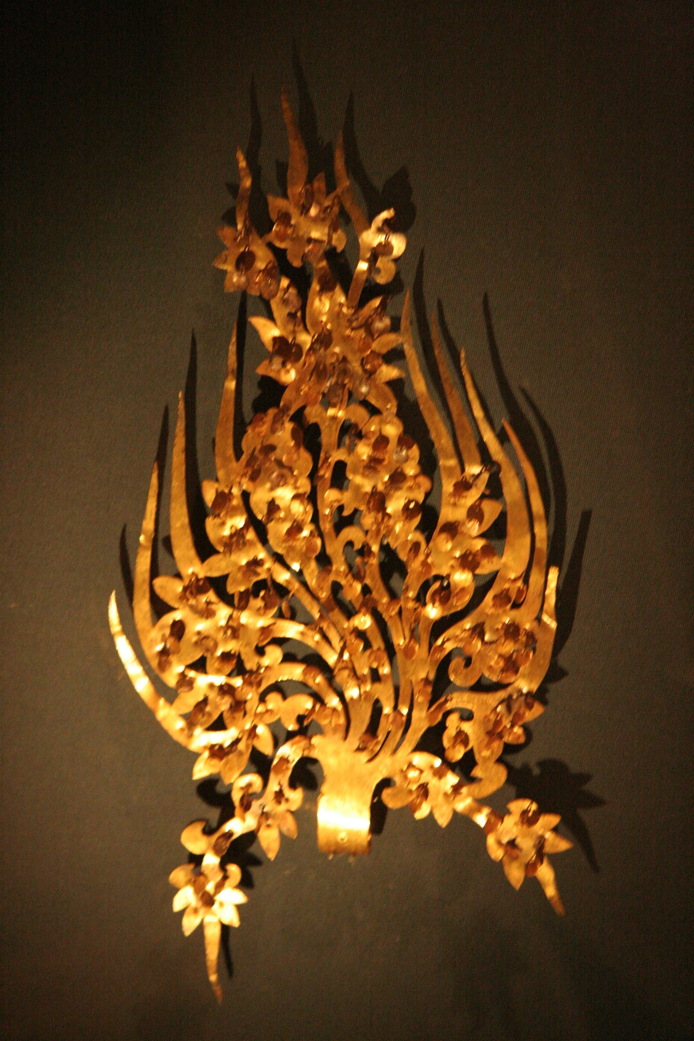 A close up of one of the two gold diadem ornaments found in King Muryeong's tomb which were for the king. They were worn on a silk cap afixed to the sides. The pair are also designated as a National Treasure of Korea.